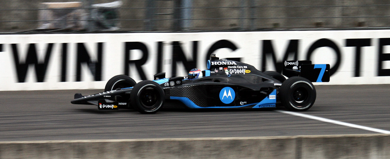 Indy Racing League 2008 Rd.3 Indy Japan 300: Danica Patrick (Andretti Green Racing) in Twin Ring Motegi, 2 laps to go to the end of the race.